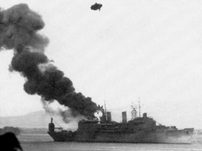 The U.S. Navy seaplane tender USS Curtiss (AV-4) burning after a Japanese Aichi D3A1 Val dive bomber crashed on her during the Pearl Harbor attacl.